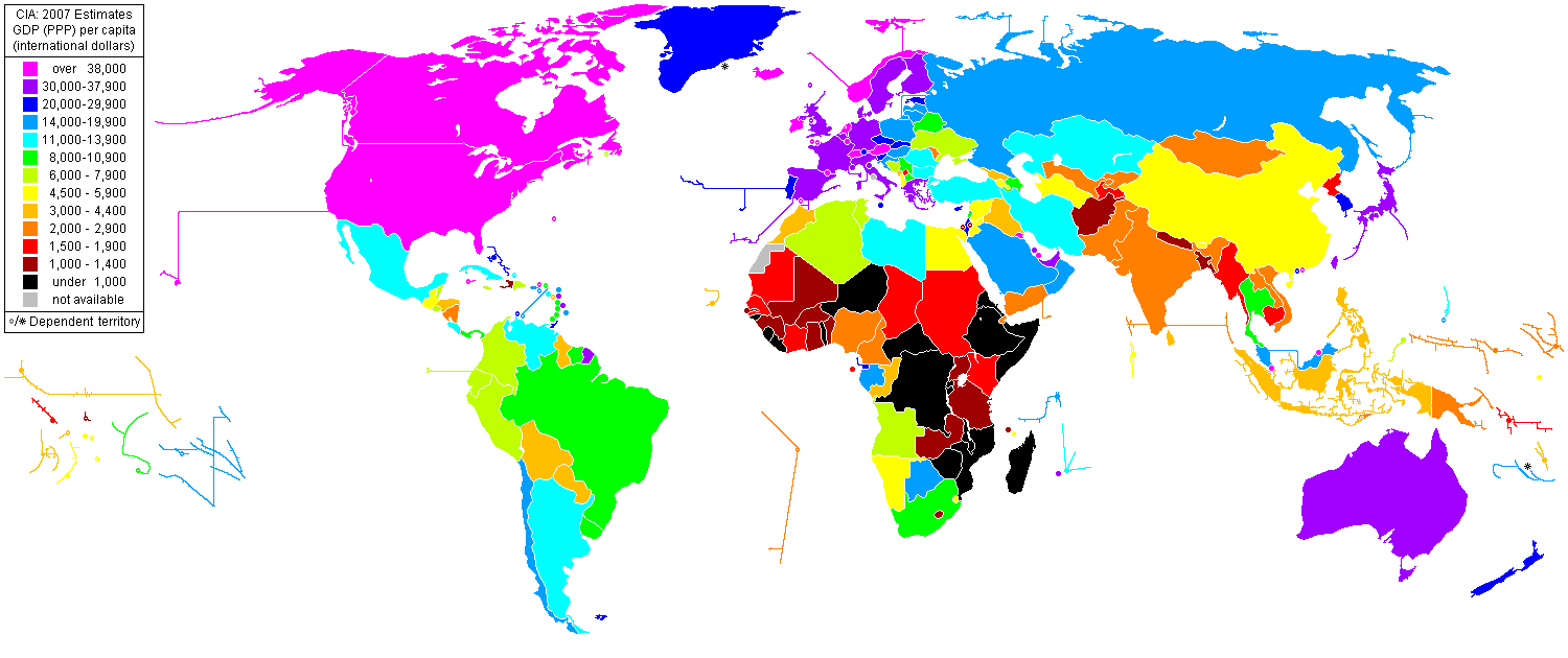 World map showing 2007 -or earlier- estimates about GDP (PPP) per capita (international dollars) over 38,000 30,000-37,900 20,000-29,900 14,000-19,900 11,000-13,900 8,000-10,900 6,000-7,900 4,500-5,900 3,000-4,400 2,000-2,900 1,500-1,900 1,000-1,400 under 1,000 not available